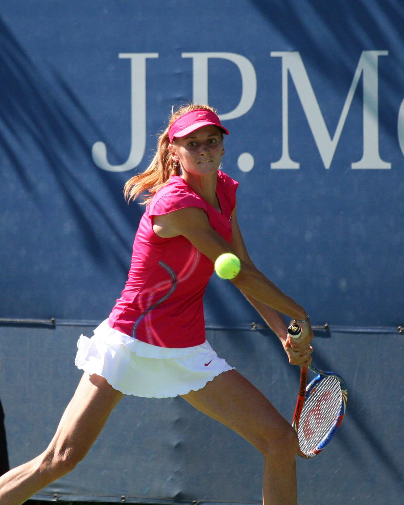 U.S. Open Aug. 30, 2010 According to flickr, this picture shows Sybille Bammer. Who is it ?